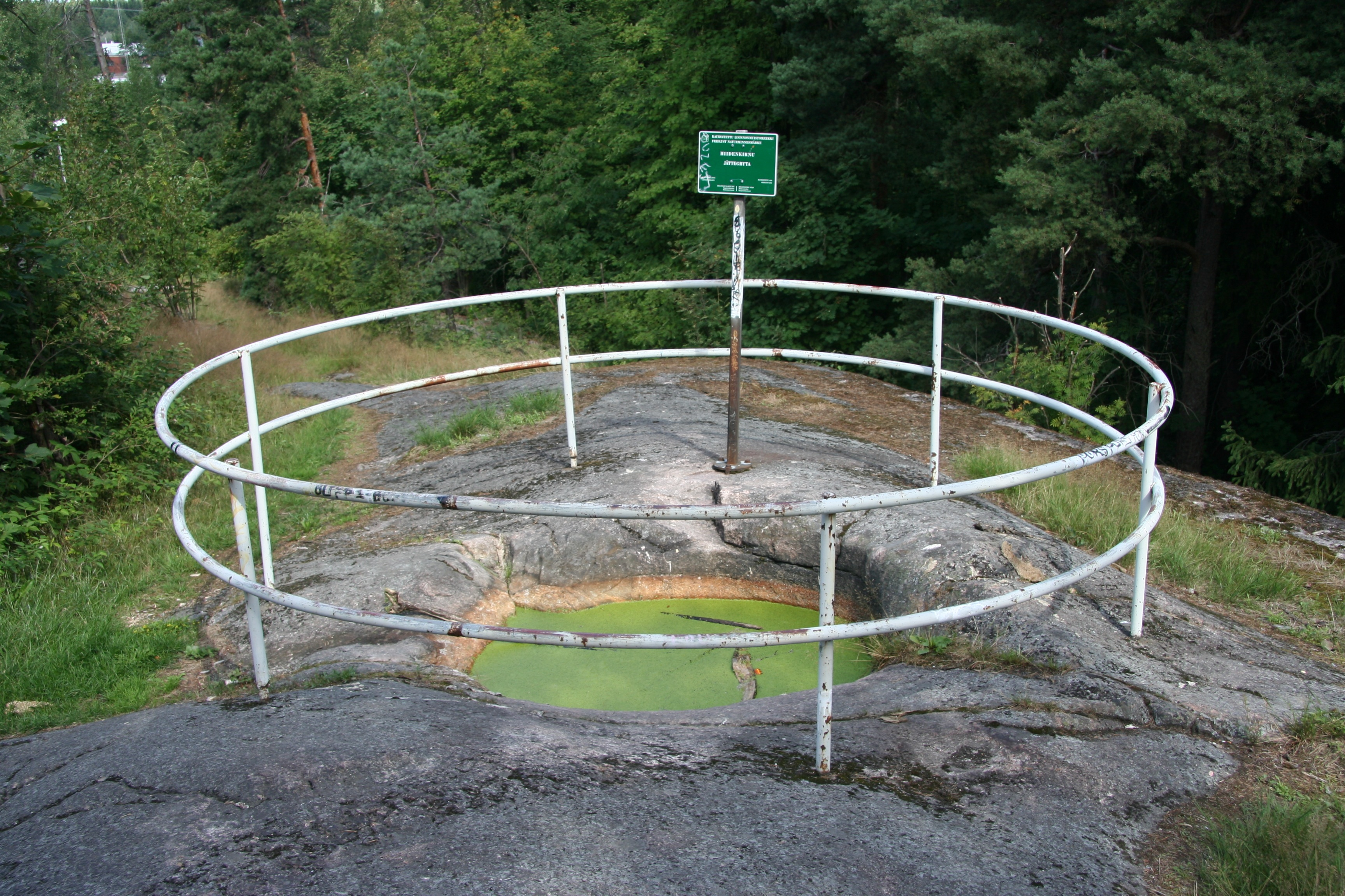 Giant's kettle in Käpylä, Helsinki